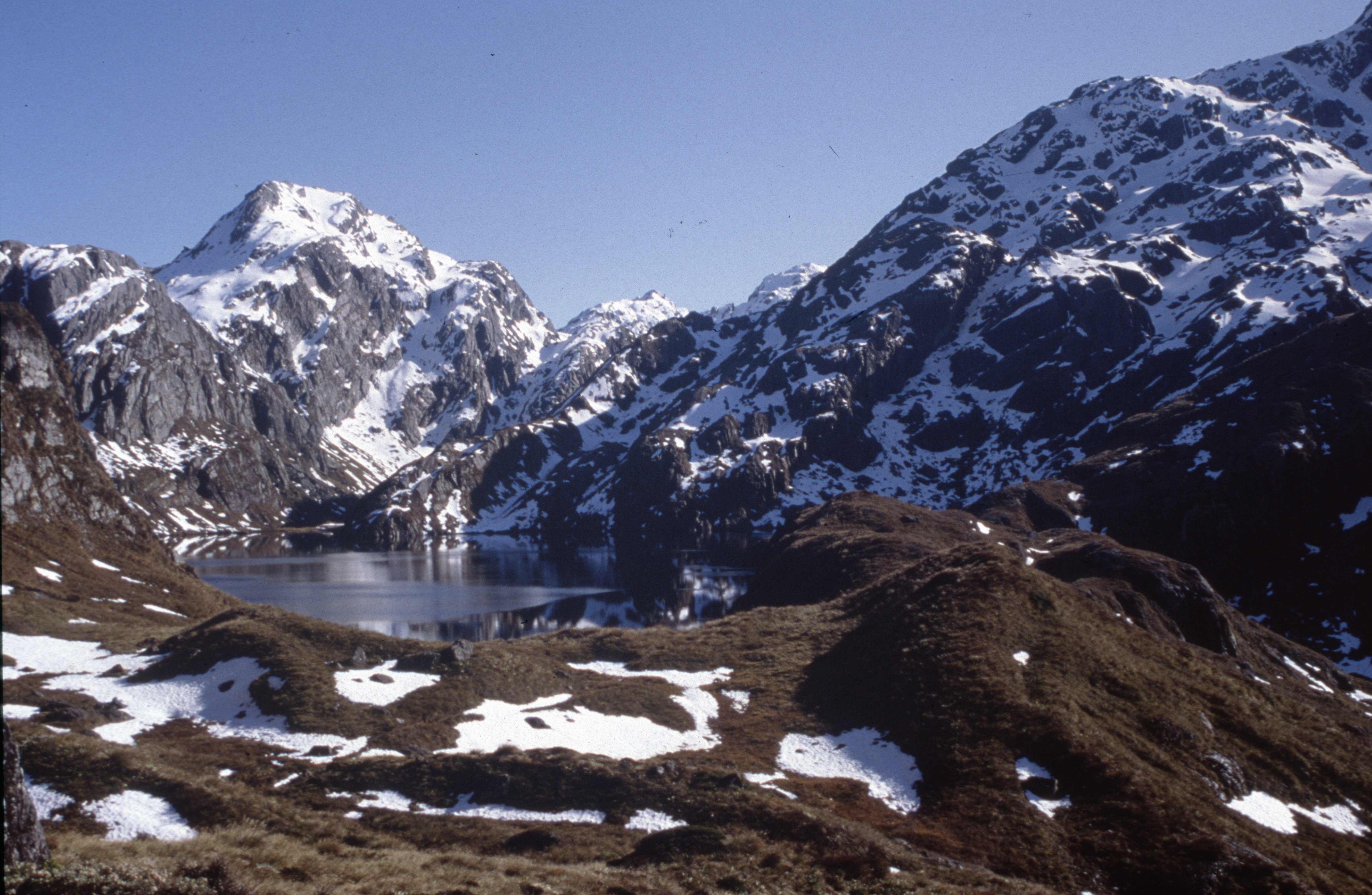 Harris Lake, Routeburn Track, New Zealand.